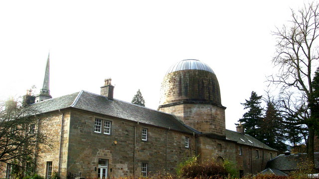 Outbuildings of Penicuik House